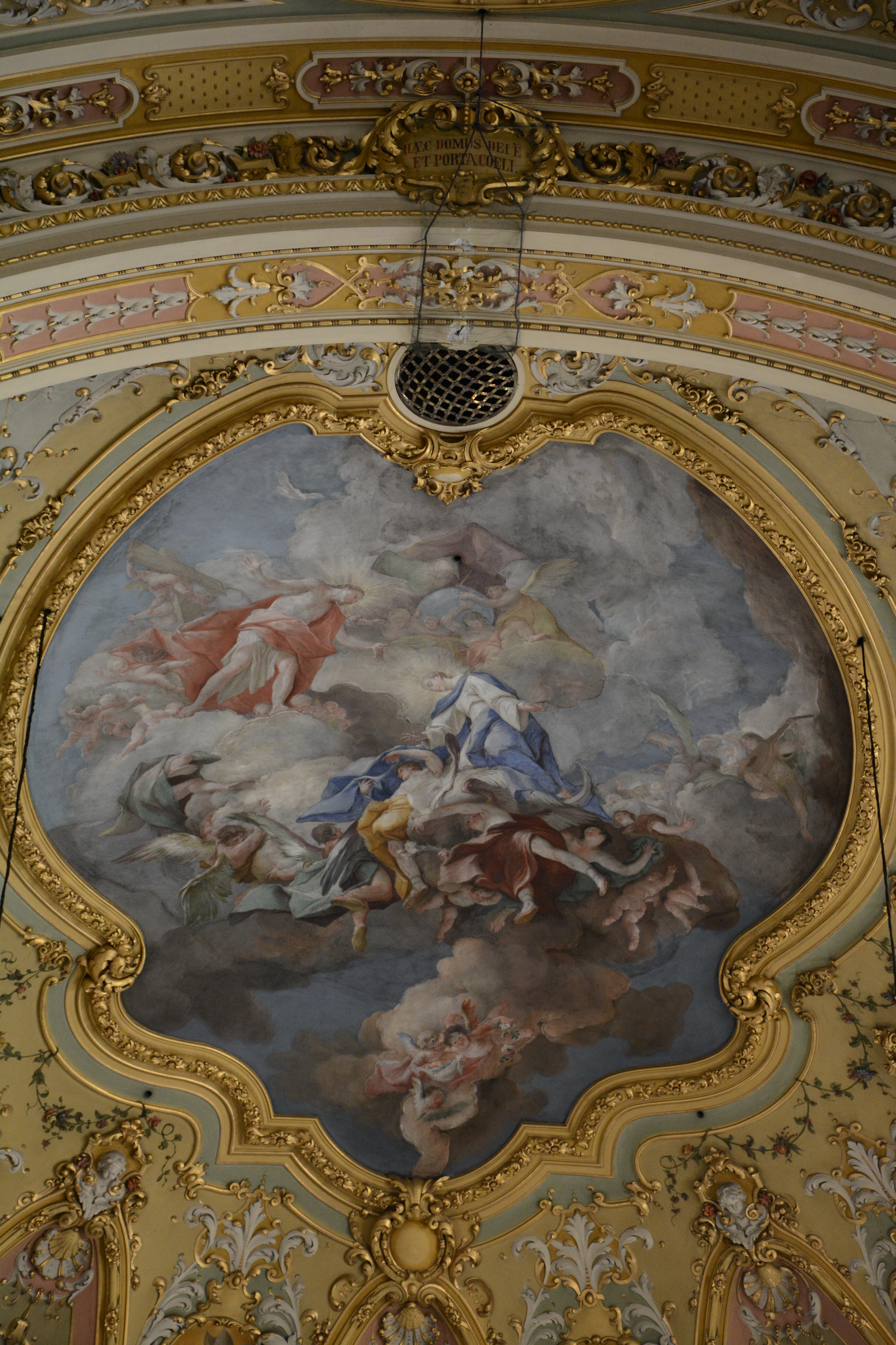 Ceiling fresco in Brixen Cathedral by Paul Troger (1748-50): The Assumption of Mary